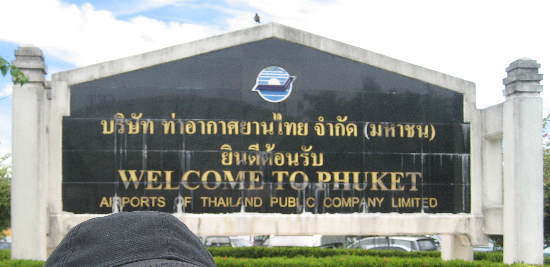 Image of Phuket International airport entrance